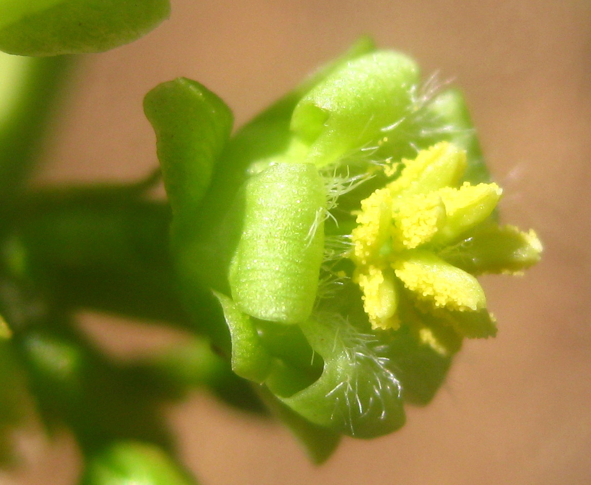 Close-up of male flower of Jatropha curcas. The seeds of this tropical shrub are used to process biodiesel.